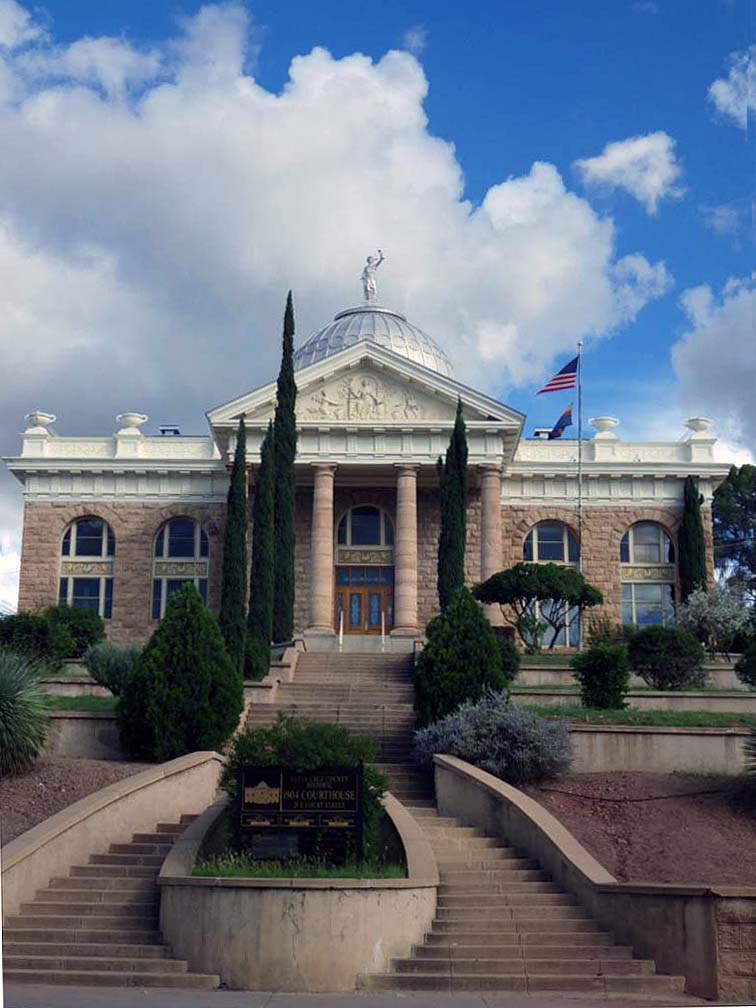 Santa Cruz County Court House — in Nogales, Santa Cruz County, Arizona. Built in 1904, in Neoclassical design by architect Henry Trost.